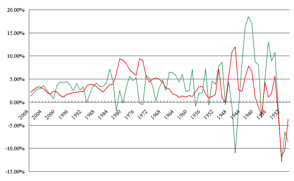 Real GDP (the green line) and Implicit GDP deflator changes (the red line) in United States. The original data released by Bureau of Economic Analysis on 01/30/2009 (on-line available at